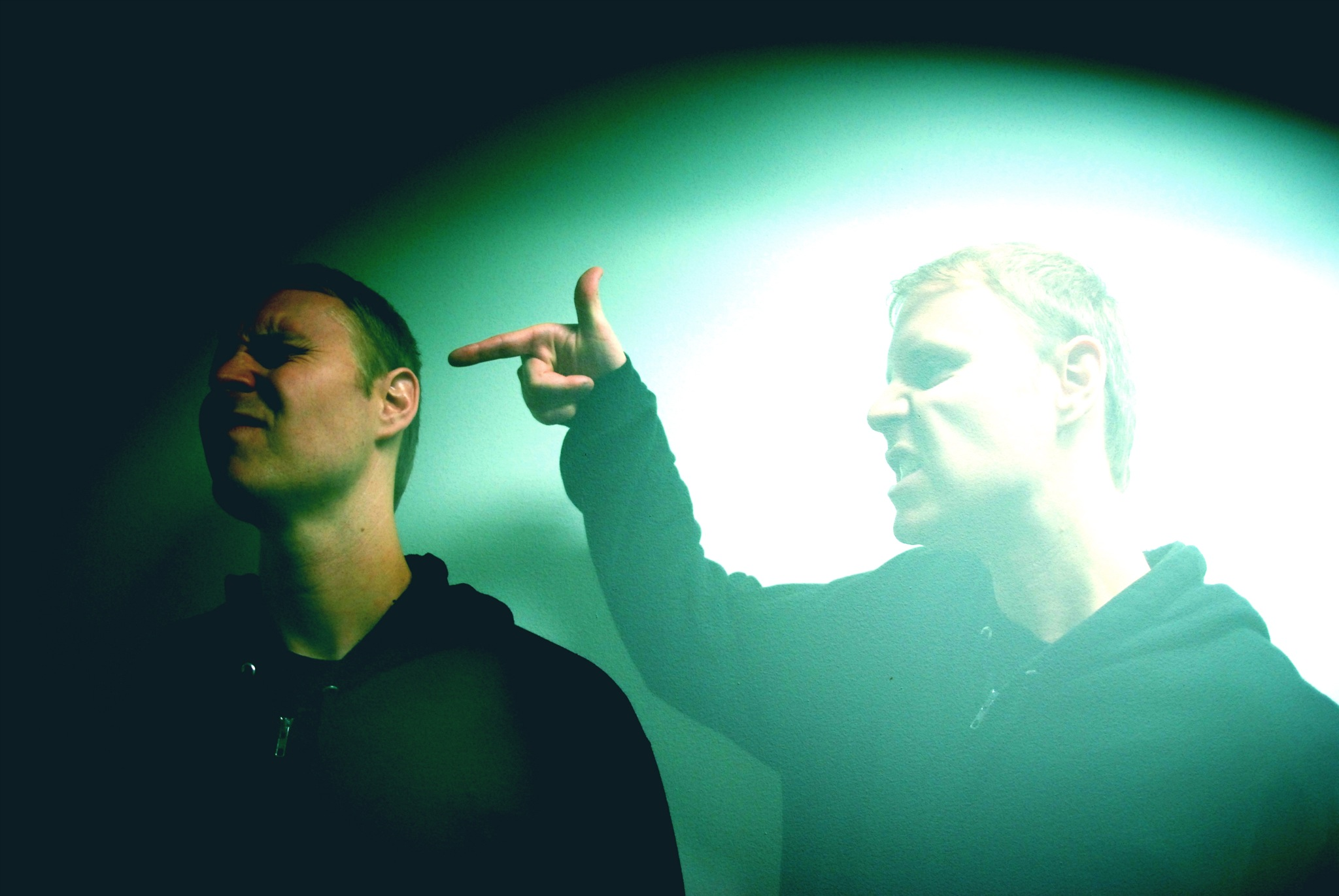 Promo